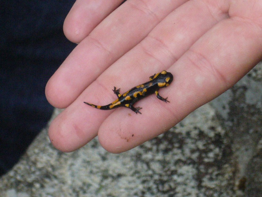 Salamandra salamandra in Natural Park of Fragas do Eume, Corunna, Galicia, España.